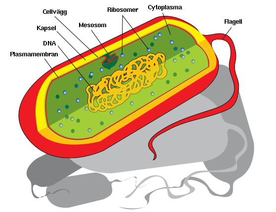 Procaryote organism